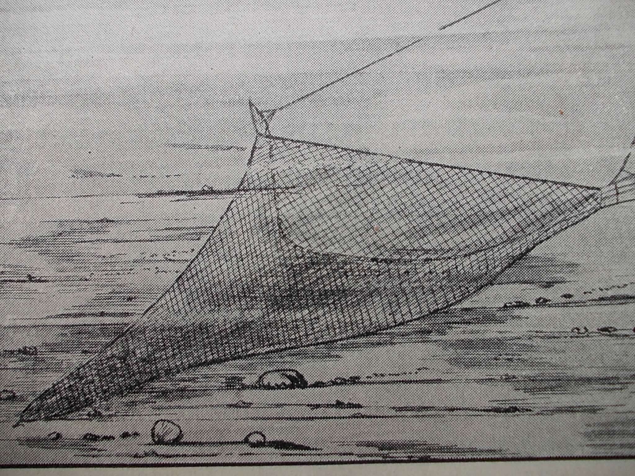 Trawlernet